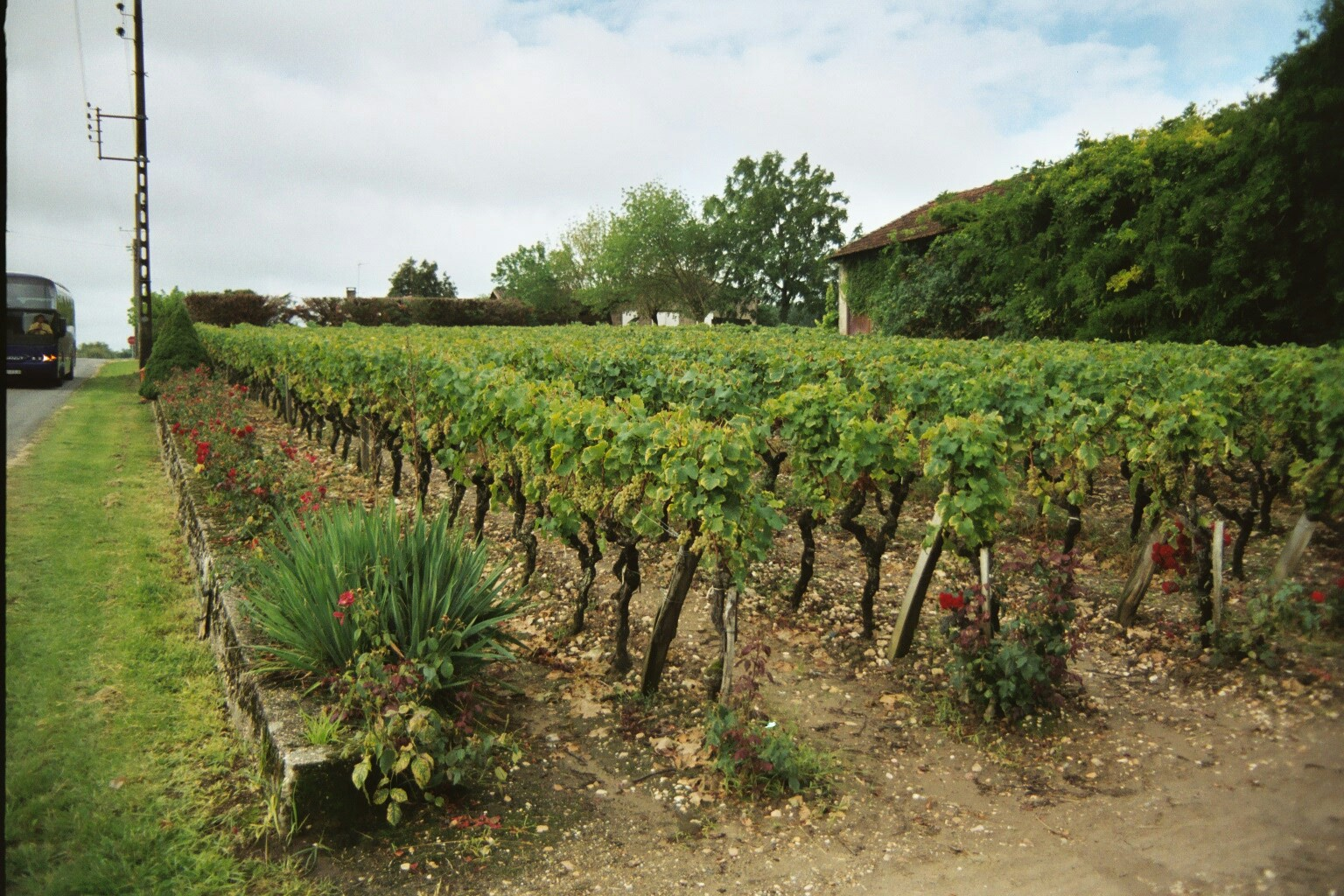 Château Raymond Lafon in Sauternes